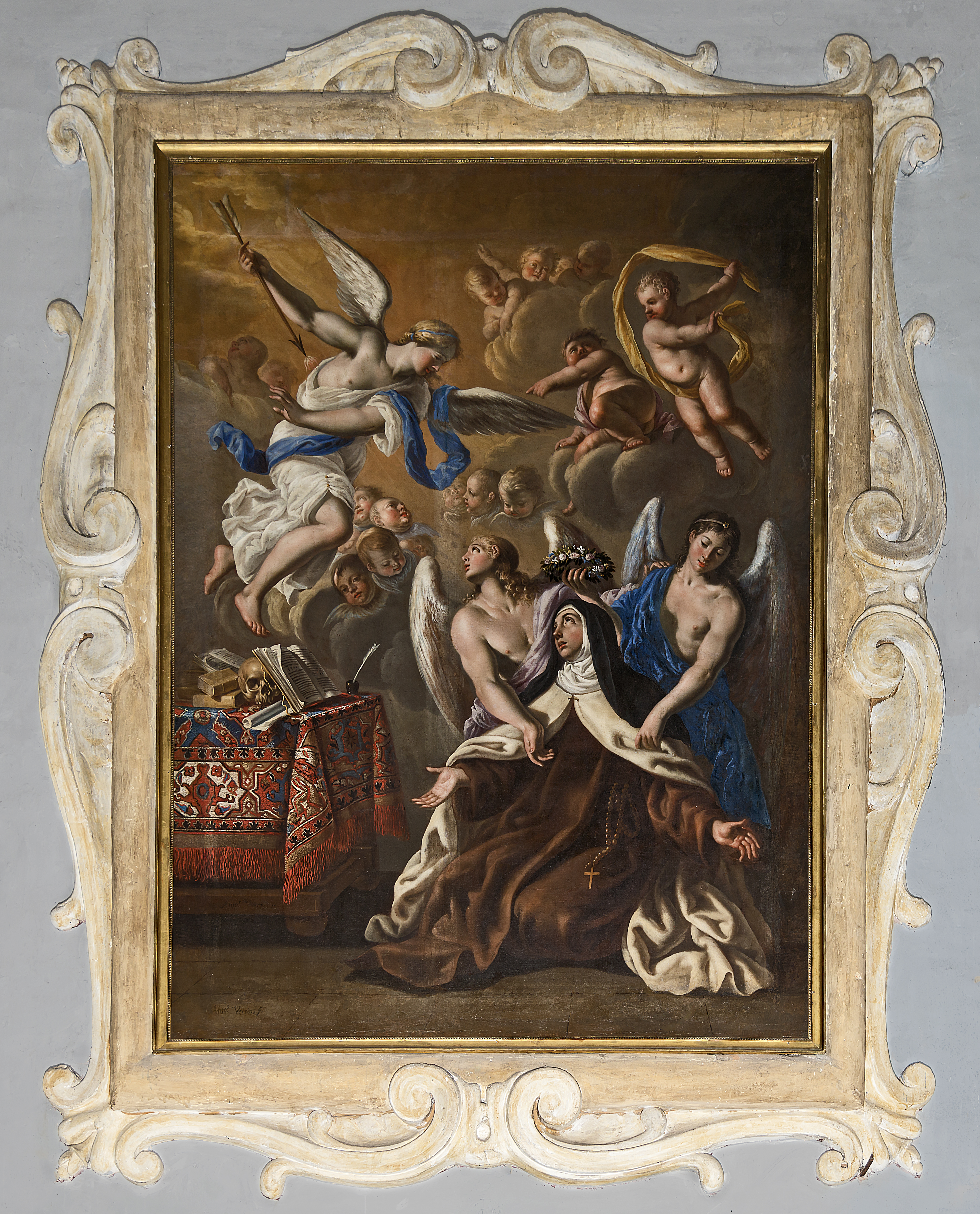 Church Saint-Exupère from Toulouse, "La Tranverbération de Sainte Thèrèse d’Avila" by Antonio Verrio - seventeenth century Oil on canvas, 360 × 250 cm